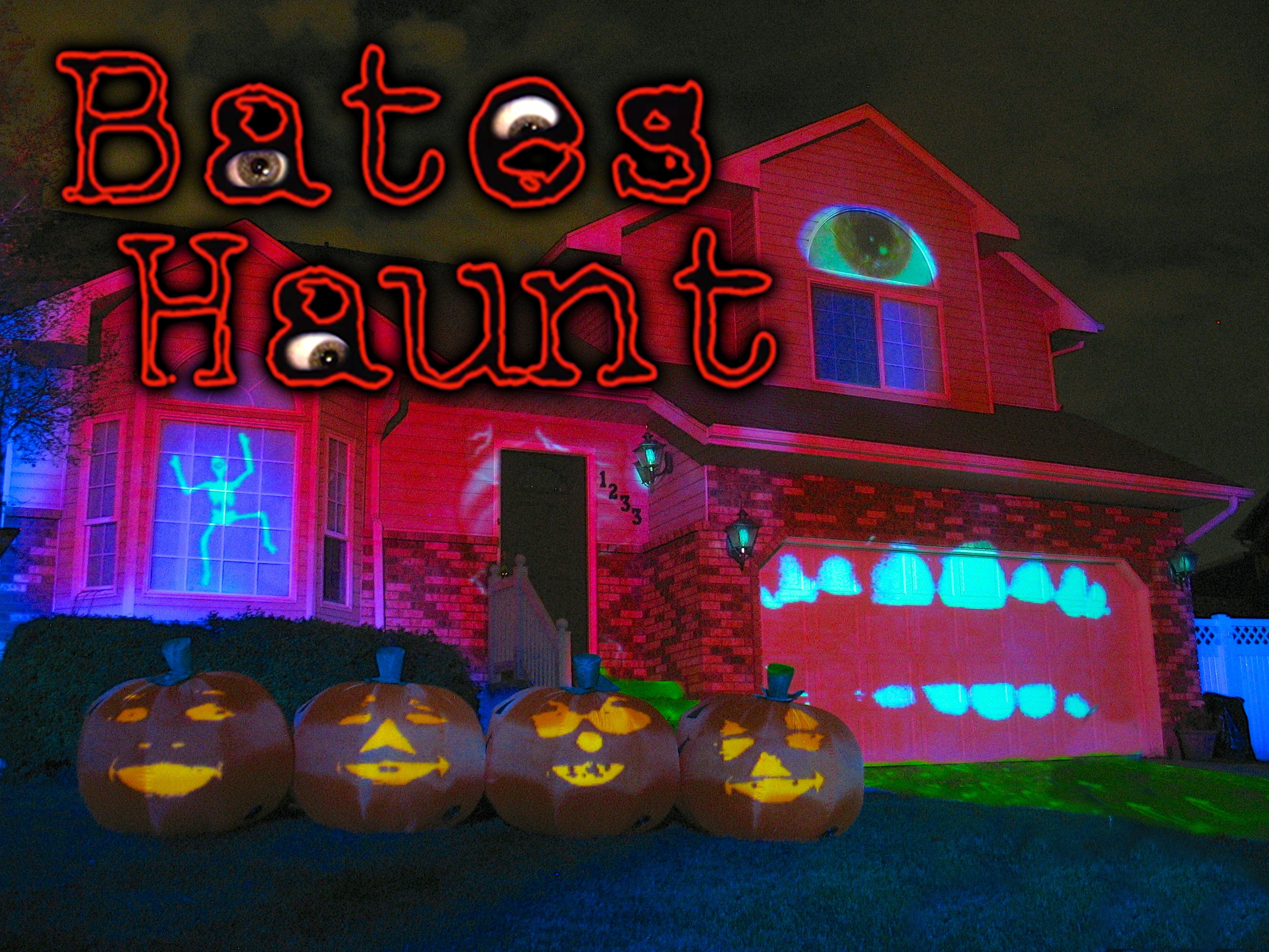 Projection show on home with an eyeball, pumpkin quartet and skeleton. Halloween haunt using projection mapping.